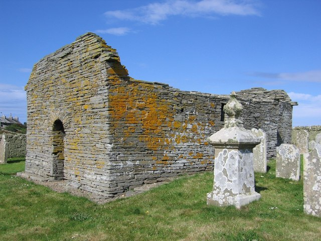 St Mary's Chapel on Wyre. The 12th century St Mary's Chapel below Cubby Roo's Castle and near Bu farm on Wyre. A well preserved chapel and walled graveyard believed to have been founded by either Cubbie Roo or his son Bjarni who was Bishop of Orkney.